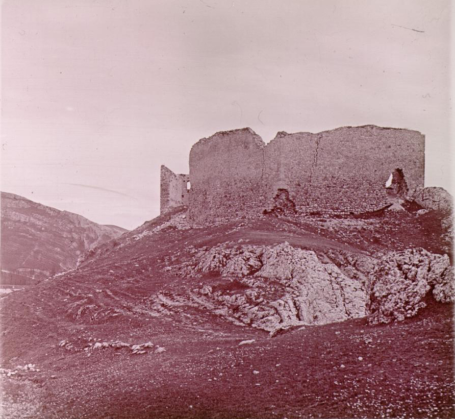 Ubierna Castle, in the province of Burgos, Spain. Photo taken by Eustasio Villanueva, circa 1925.